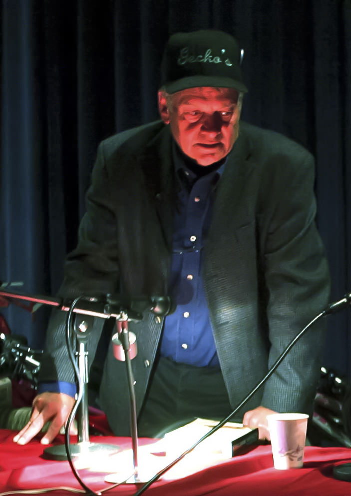 Terry Bisson. Poto was taken on 2009/